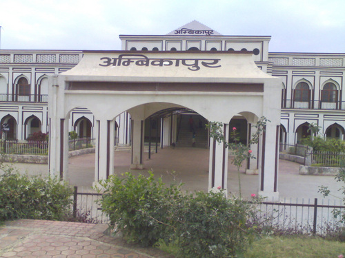 Amabikapur Railway Statiom_Ayaz